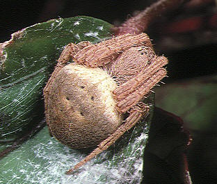 female Neoscona punctigera from Okinawa.